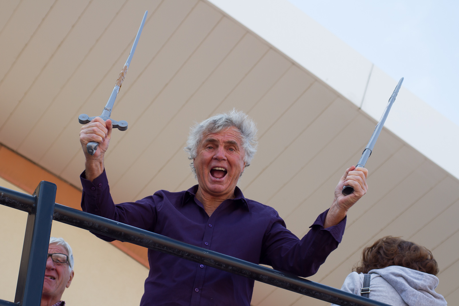 Stan Boardman at the Floral Pavilion Theater, New Brighton.